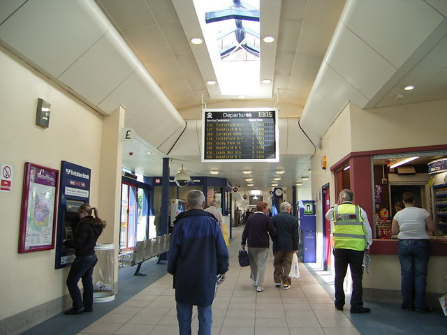 The Bus Station